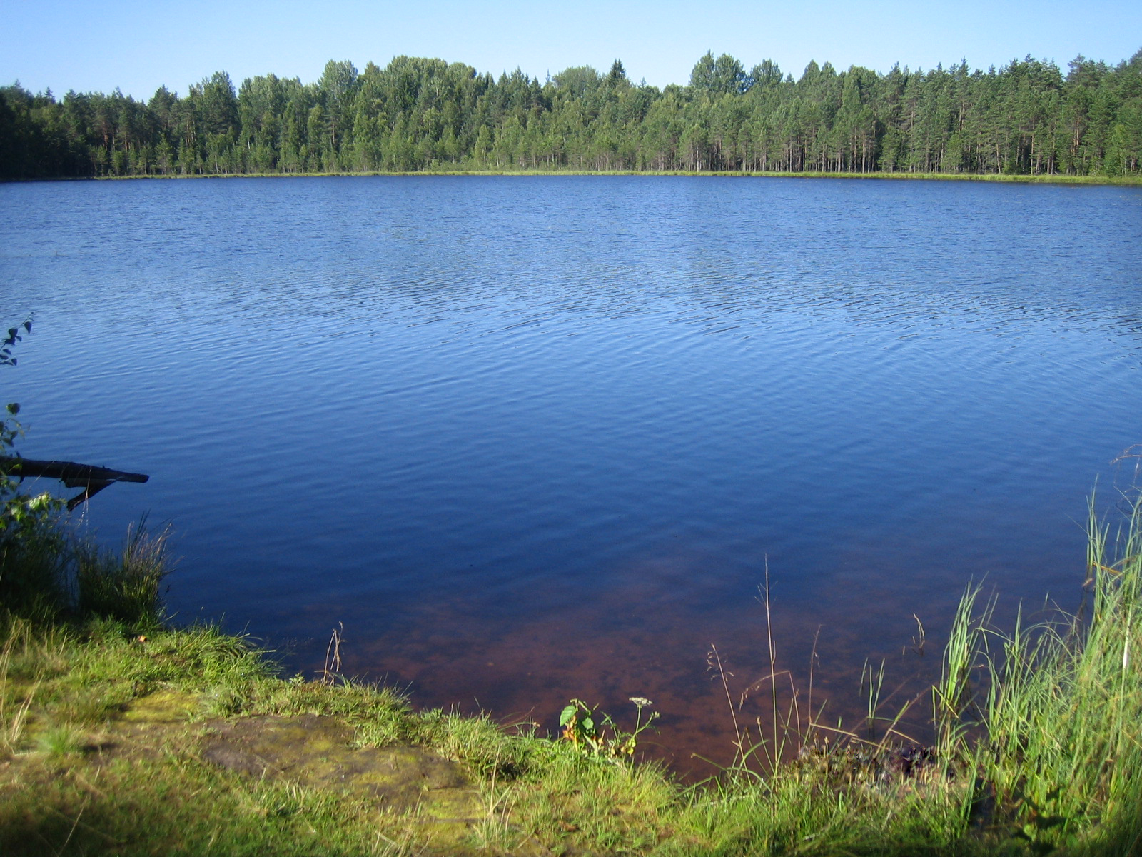 Põrstõ (Põrste) lake